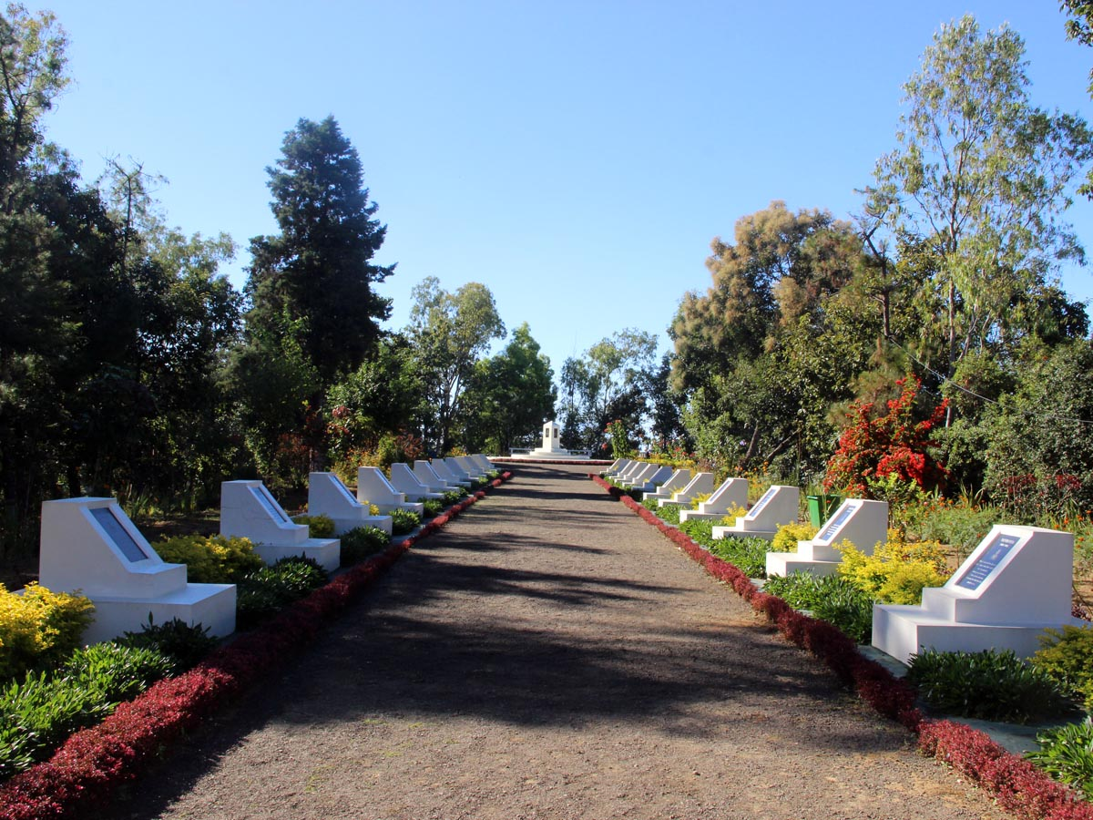 This is to commemorate the Mizo poets and writers.